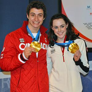 Canadian ice dancers Scott Moir and Tessa Virtue with their gold medals at the 2010 Winter Olympics.